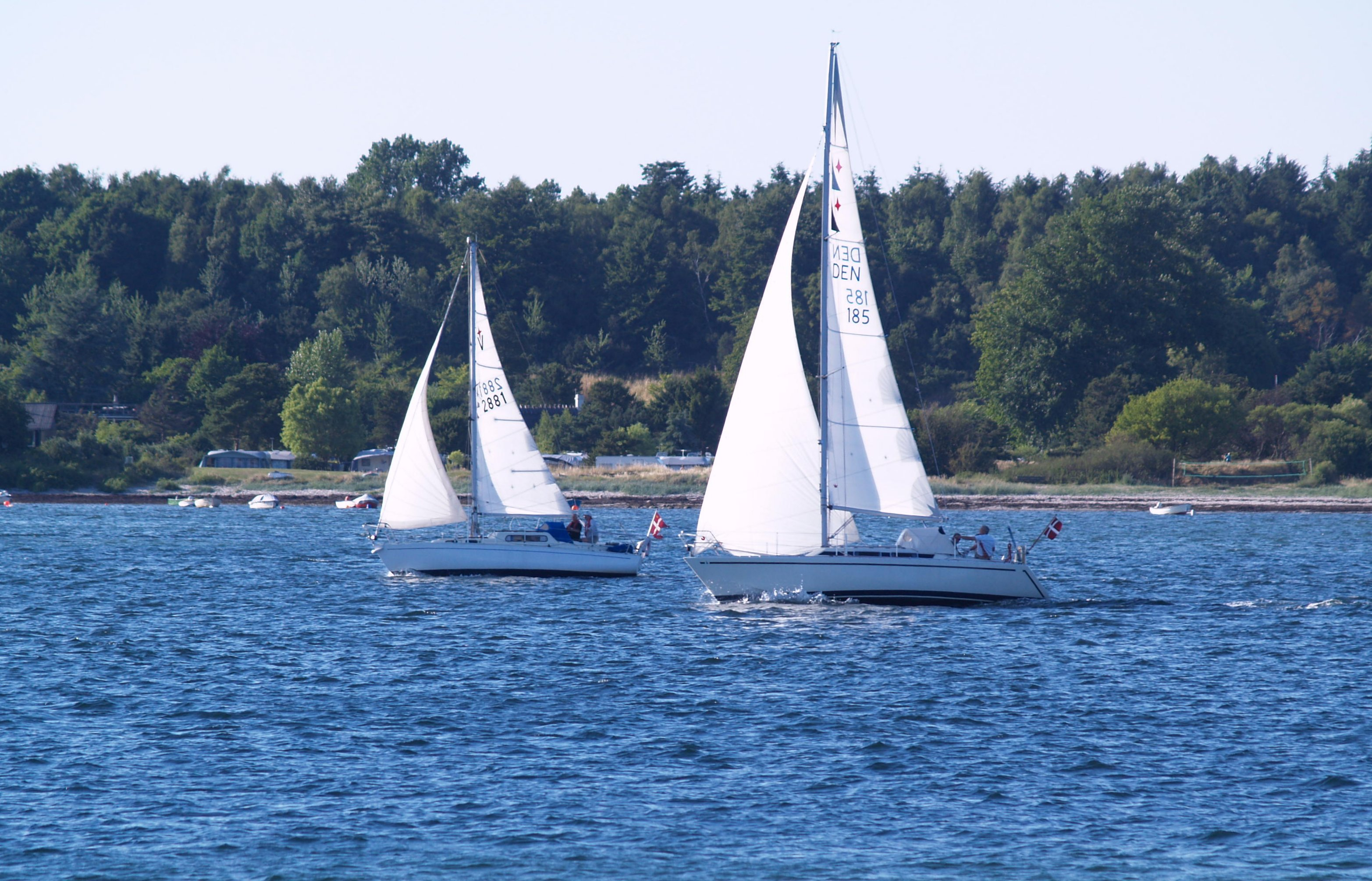 Danish Sailboats at Kulhuse Harbour